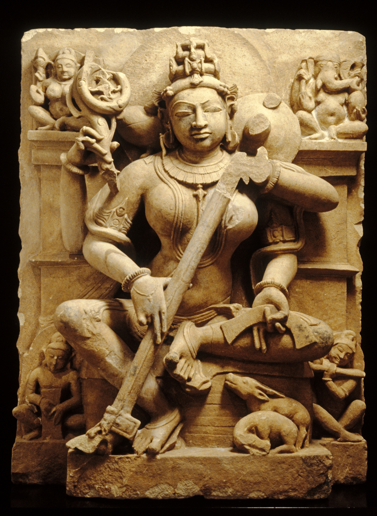 This sculpture once stood in a niche in a Hindu temple. Sarasvati is the name of a river and of a goddess-a goddess who embodies the power of speech, of music (she is playing the stringed instrument known as the "vina"), and of learning (she holds a manuscript in her lower left hand).